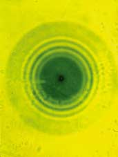 Radiohalo, possibly from Uranium-238